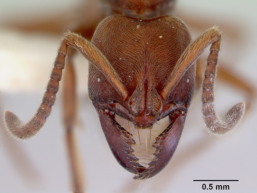 Head view of ant Pachycondyla amblyops specimen casent0172431.